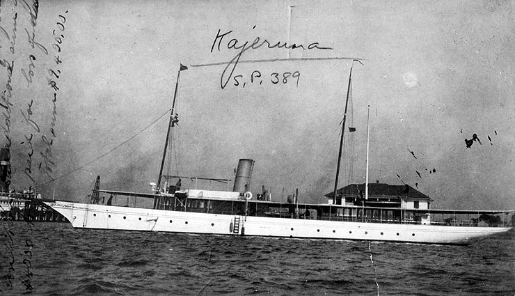 The civilian yacht Kajeruna, prior to her service as the United States Navy patrol vessel.